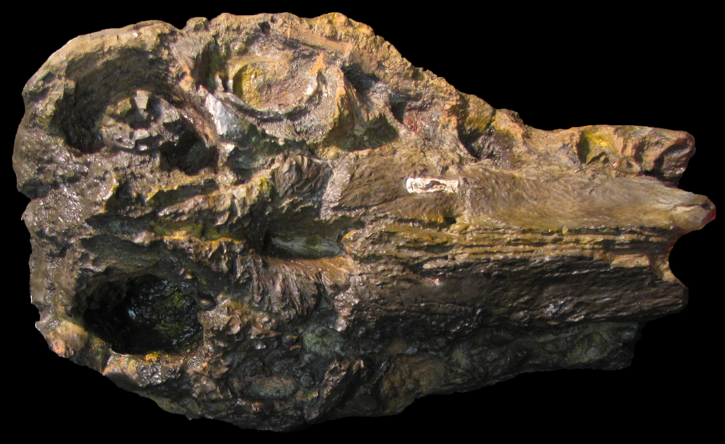 Ventral view of the cast of the fused premaxillae of Oxalaia quilombensis.